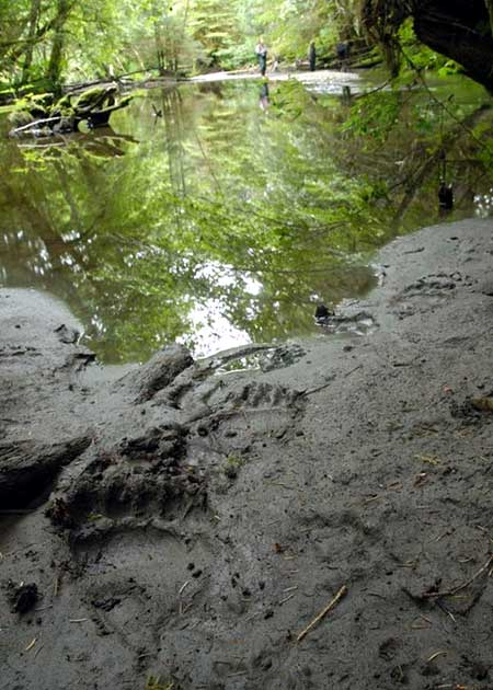 footprints by brown bears in Admiralty Island National Monument, Alaska